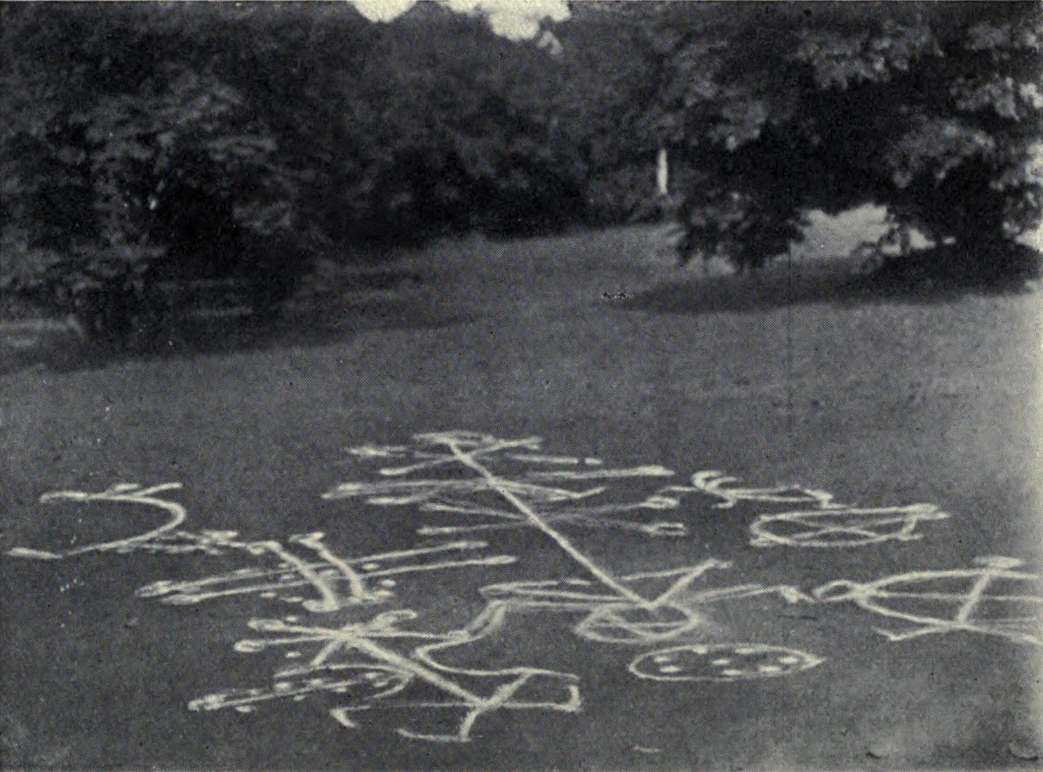 Ogbo Obodo figures drawn on the ground in chalk for the cult of Nkpetime in western Igboland in the 1900s depicting from top left anticlockwise a leopard, cross roads, a mirror, Nkpetime pond, the sun, a seat, the moon, and a tiger cat called Ubido.